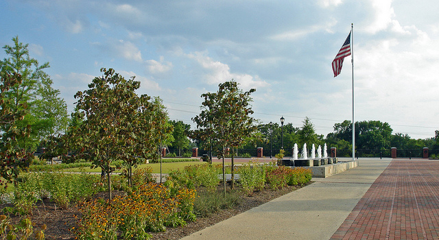 Esplanade at Columbia Canal, Columbia, South Carolina, USA